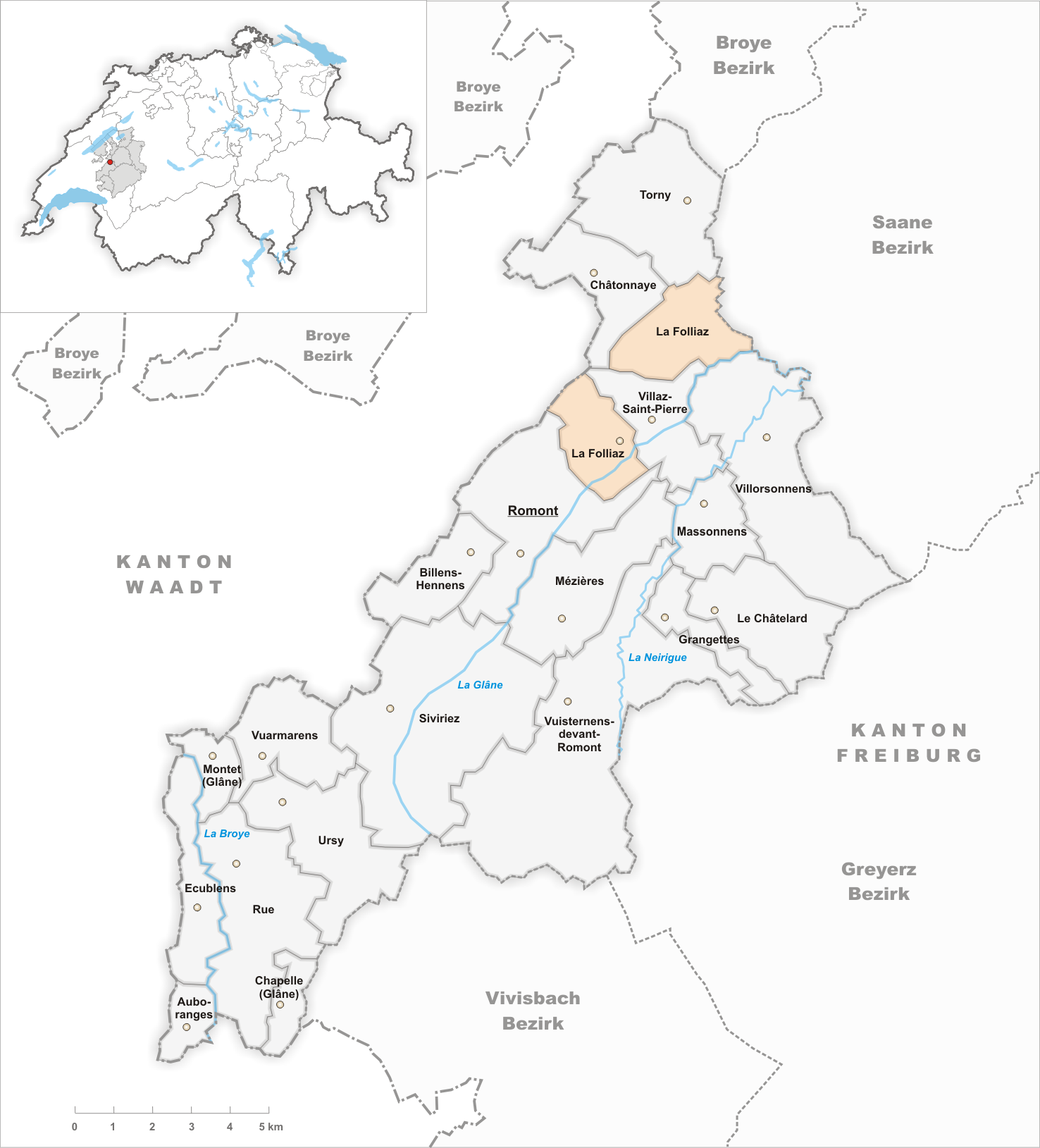 Municipality La Folliaz